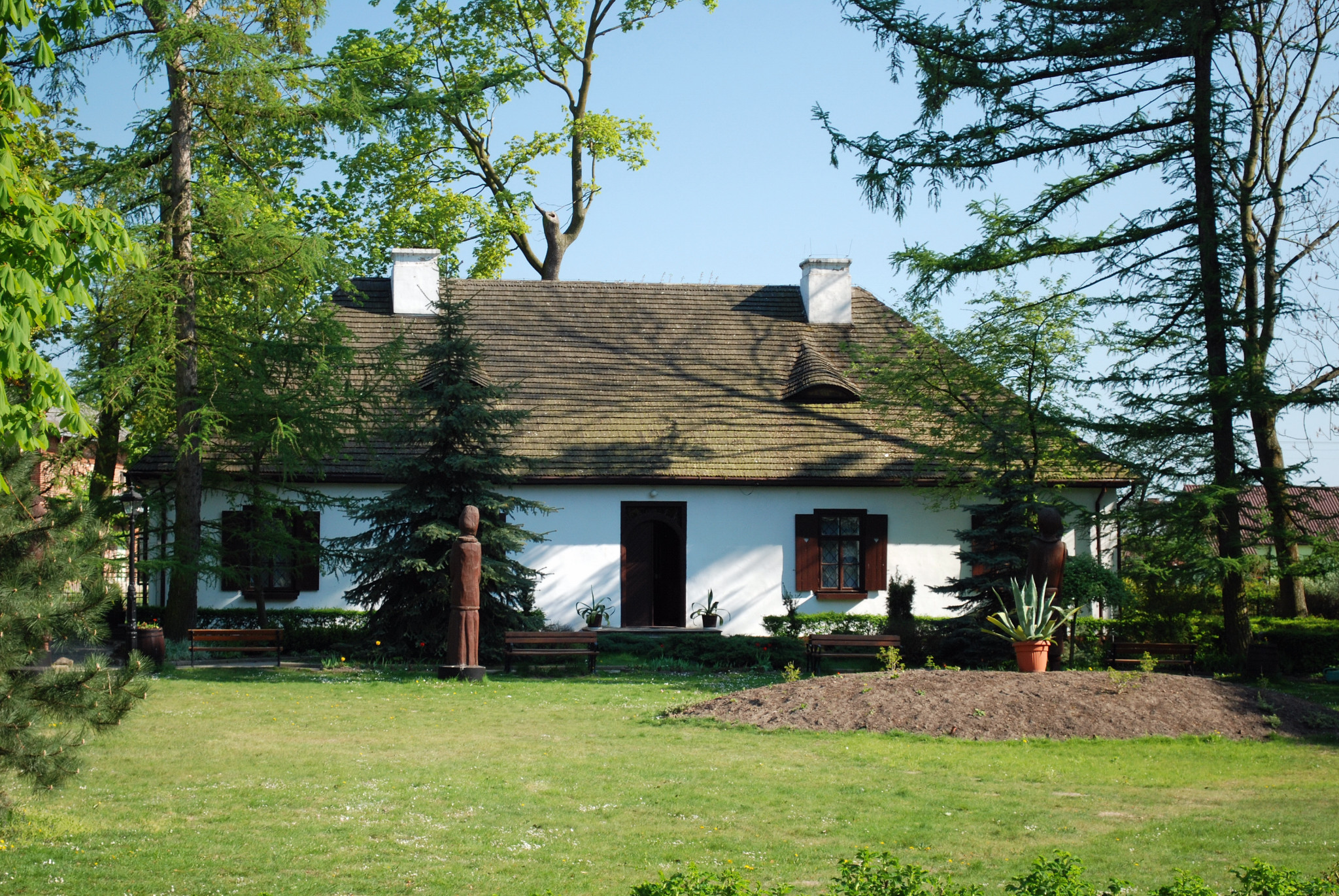 Wola Okrzejska. The place of birth, as the museum the H. Sienkiewicz.